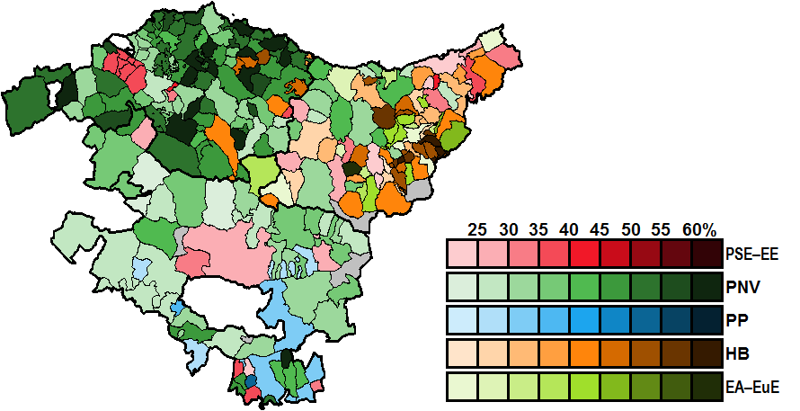 Most-voted party in Basque Country municipalities, showing vote share obtained, in the Spanish general election, 1993.